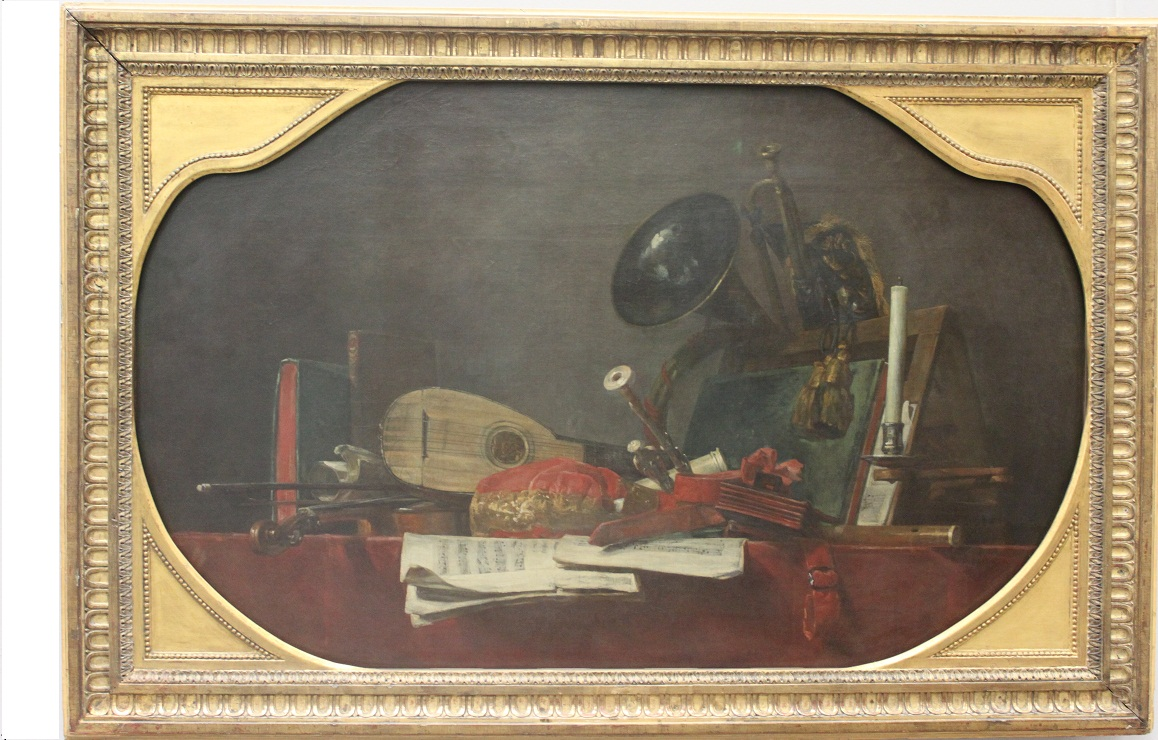 Pendant of Attributs des arts.